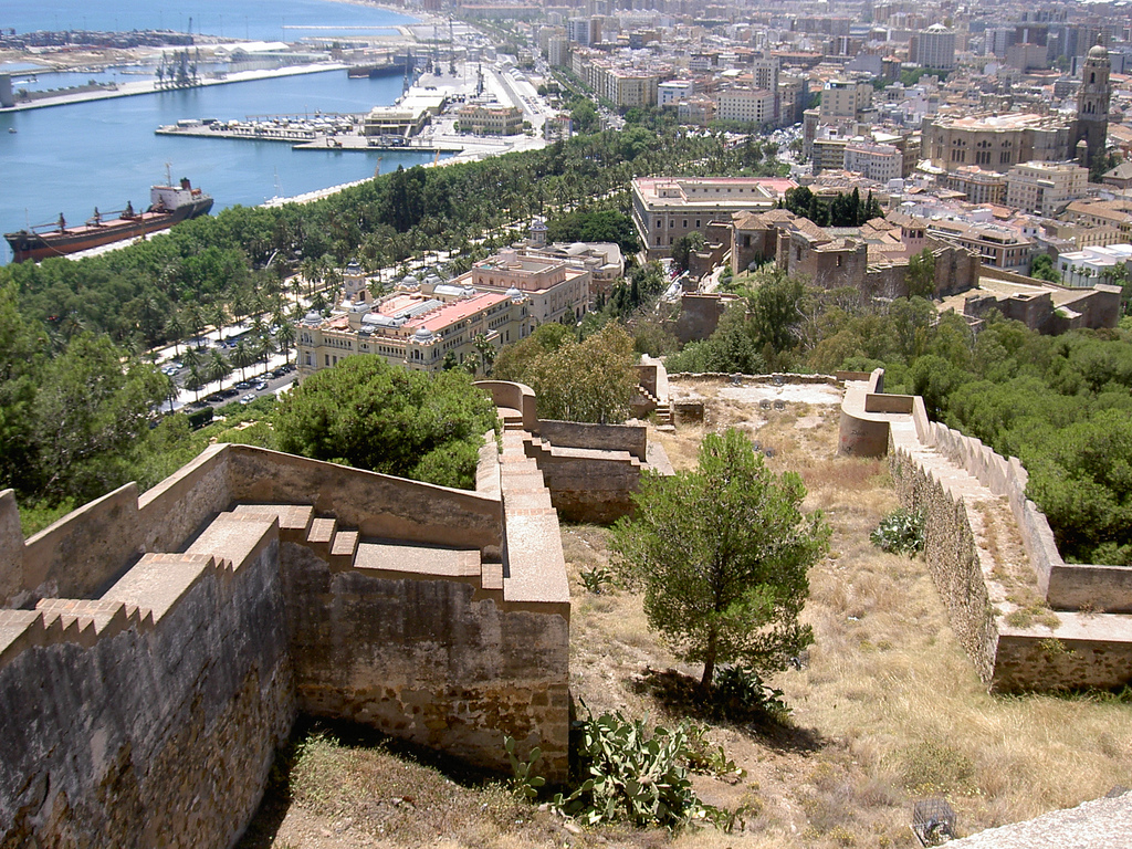 View of Málaga from Gribralfaro hill. The walls of Gibralfaro castle are also visible.